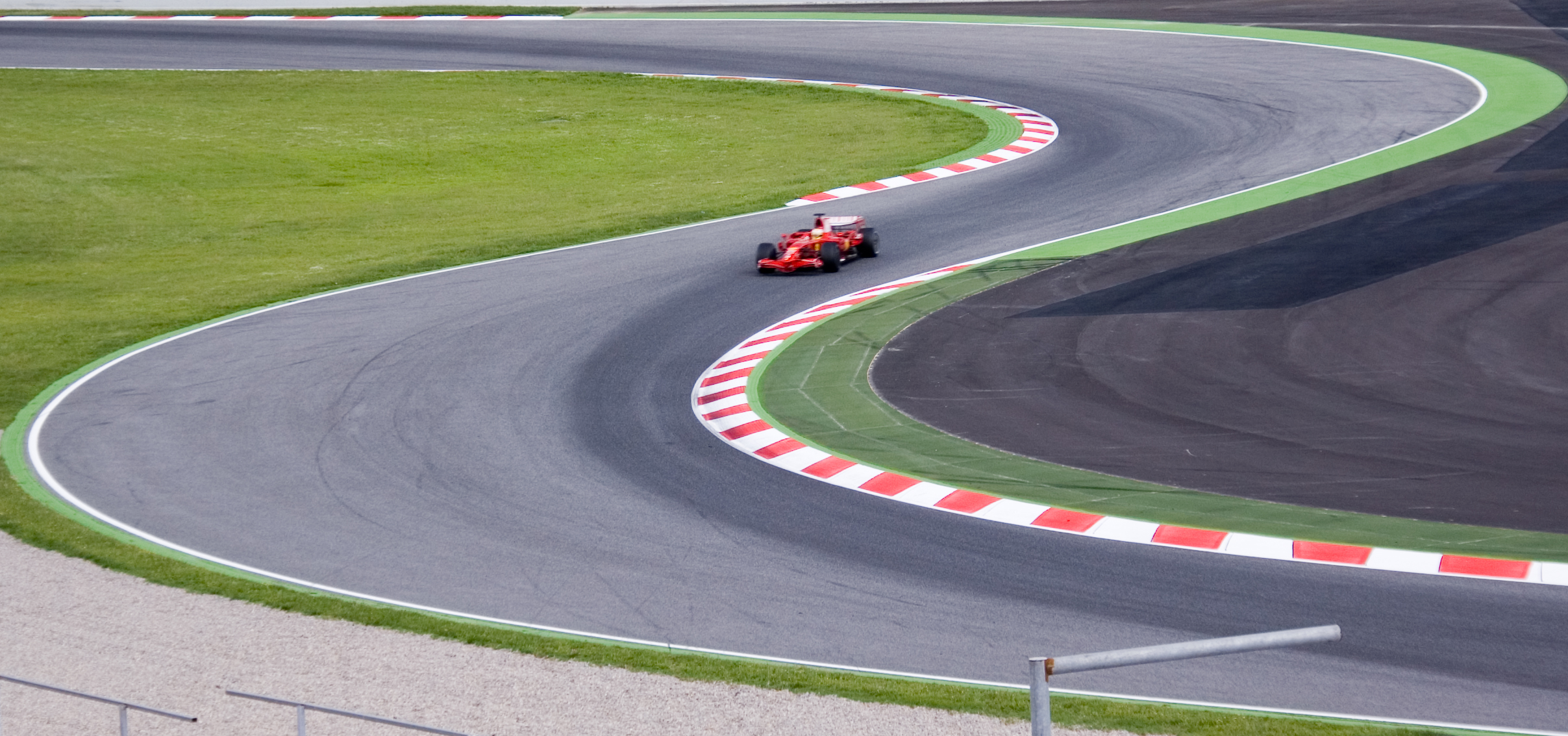 Ferrari, Barcelona 2008 test Nikon D40 + Sigma 18-200 DC OS HSM 1/160s - F/5.6 - 80mm - ISO200